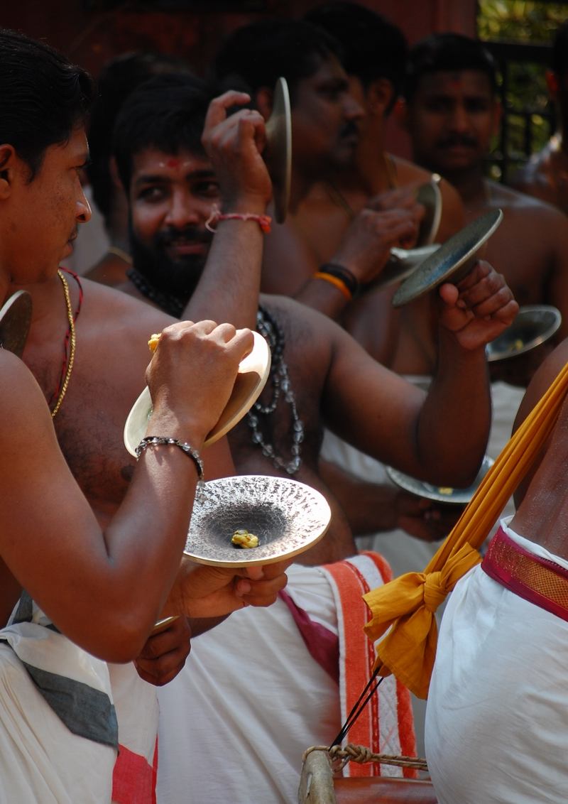 Ilathalam